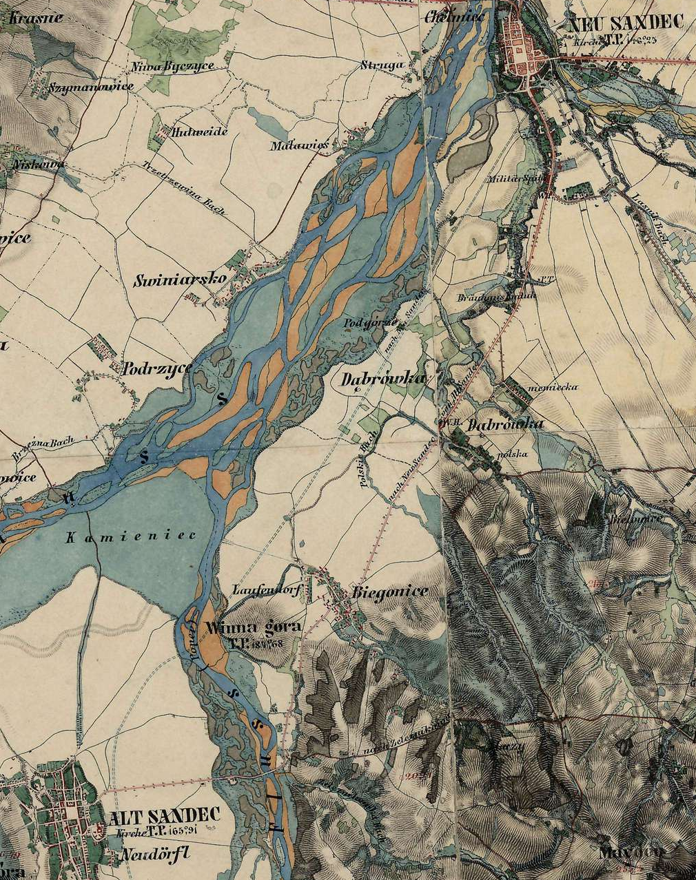 Nowy Sącz (Neu Sandez) - top right, Stary Sącz (Alt Sandez) - down left, and Biegonice with Dąbrówka in between on an austrian map from around 1855